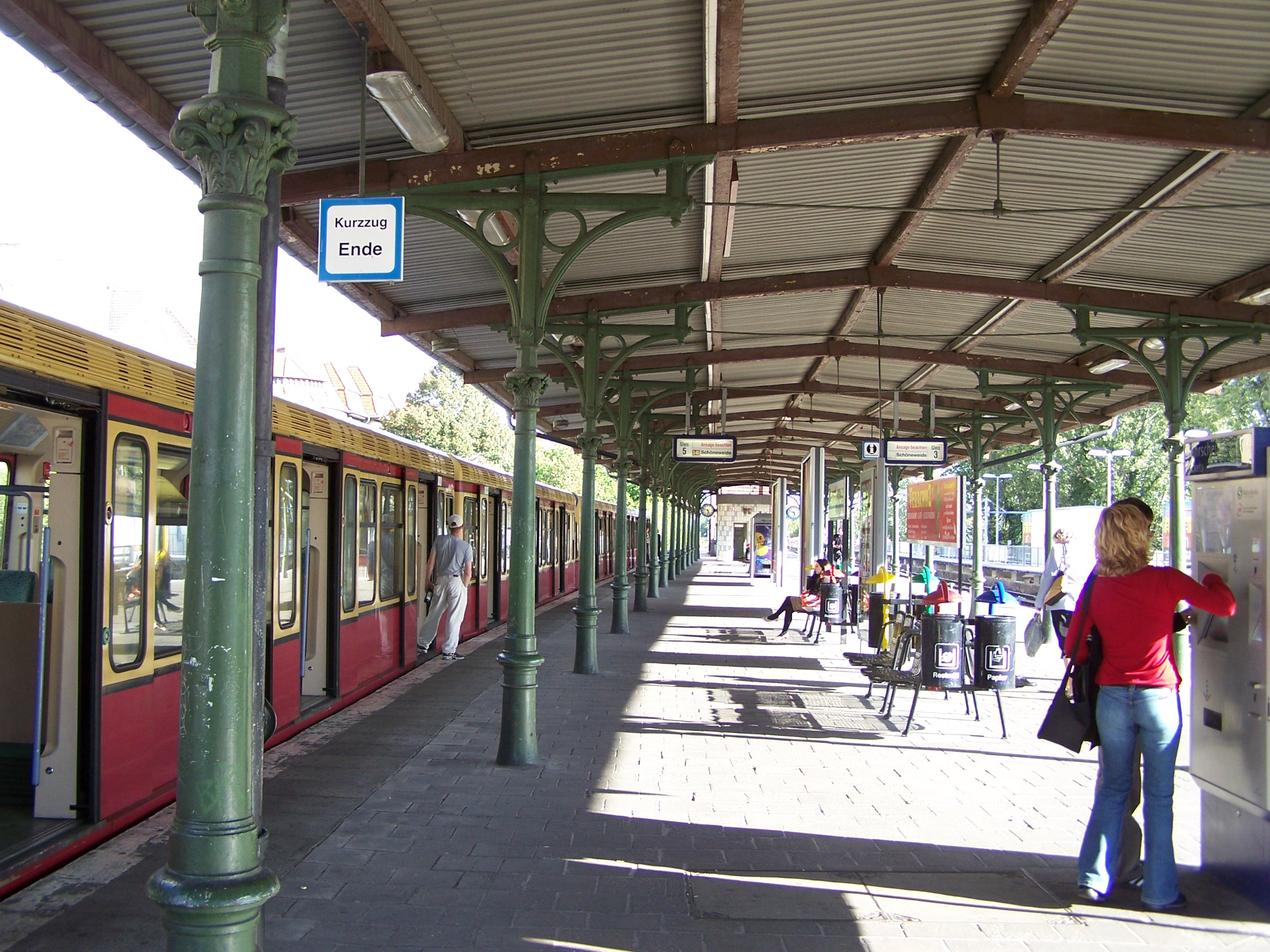 the platform A of the Berlin train station Baumschulenweg, Germany